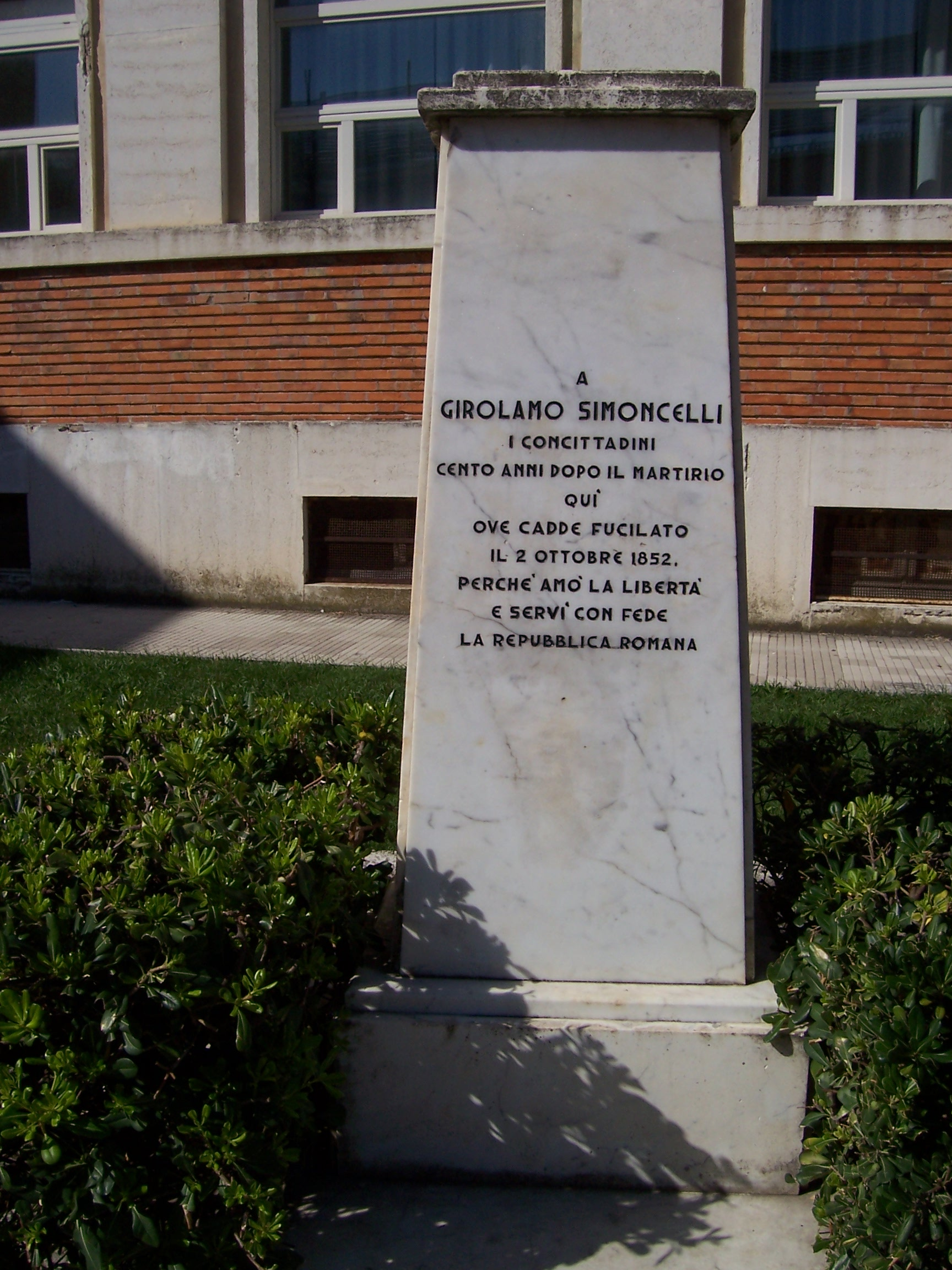 Monument to the memory of Girolamo Simoncelli - Senigallia (AN) Italy - sentenced to death as a republican by the papacy in 1852